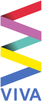 Viva Entertainment logo (cropped) Tagalog: Logo ng Viva Entertainment